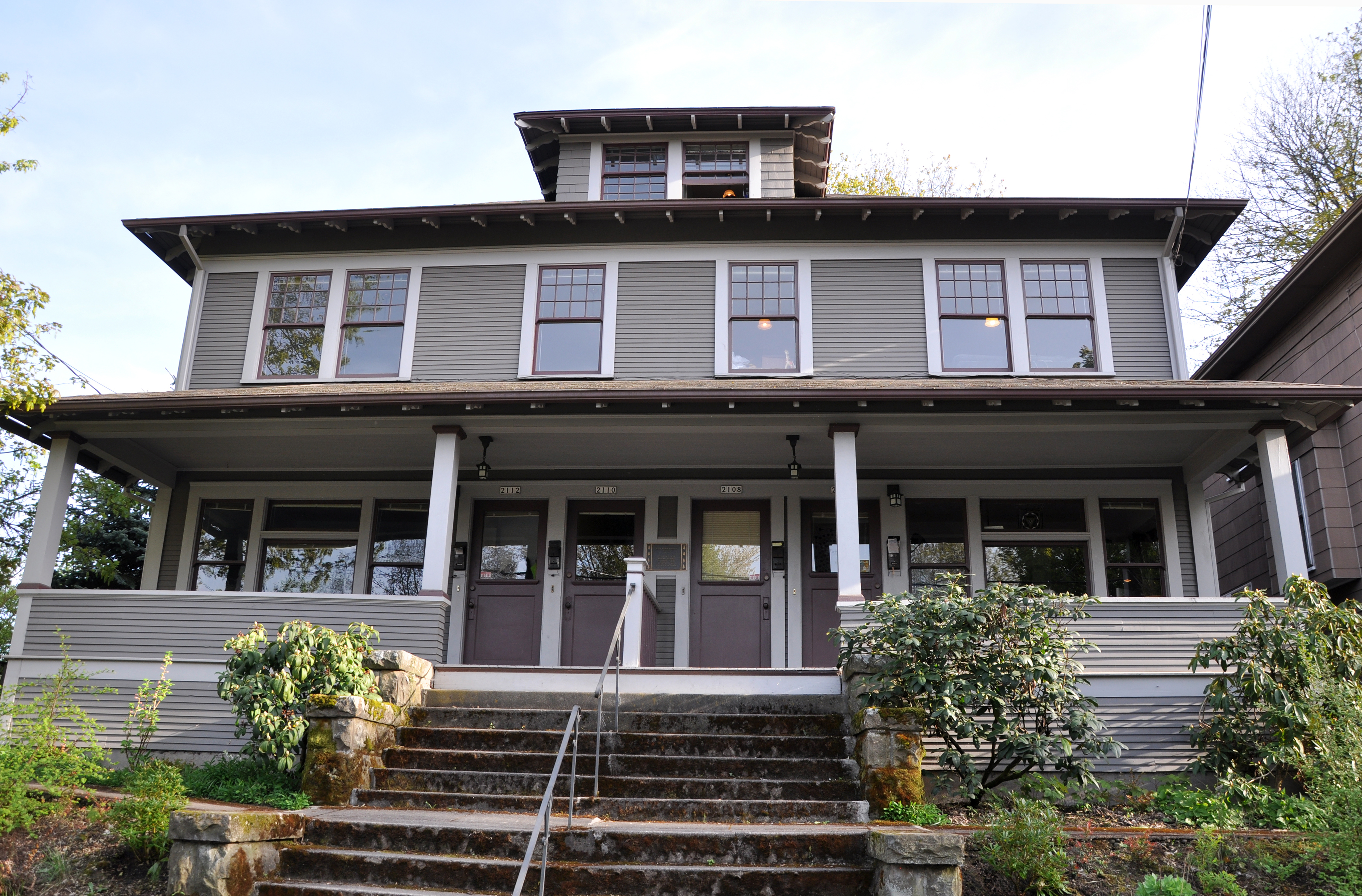 The Nettie Krouse Fourplex in Portland in the U.S. state of Oregon. The house is on the National Register of Historic Places.